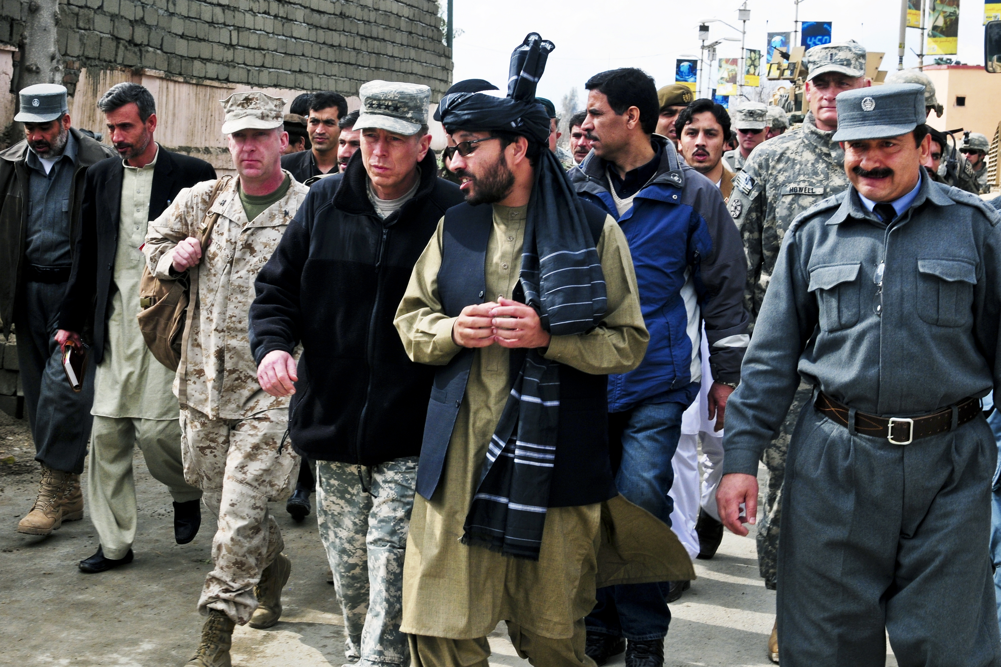 U.S. Army Gen. David H. Petraeus, commander of U.S. and international forces in Afghanistan, walks with Iqbal Azizi, governor of Laghman province, Afghanistan, to the governor’s residence for lunch, Feb. 7, 2010. Petraeus visited with the governor to discuss development within the province. U.S. Air Force photo by 2nd Lt. Chase P. McFarland